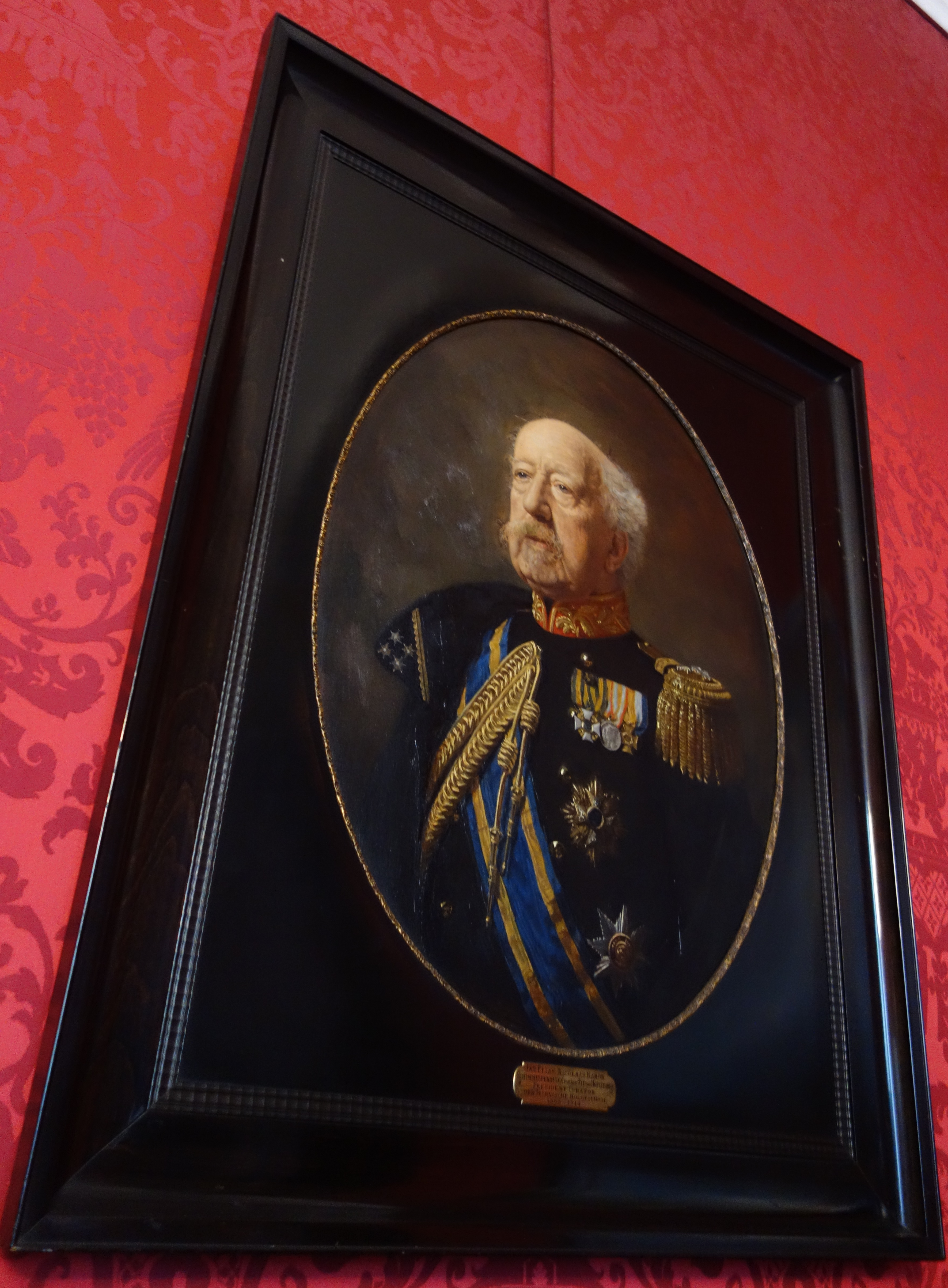 J.E.N. Schimmelpenninck van der Oye. Painting in Institute for Water Education, Delft